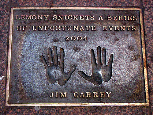 Description Jim Carrey DateSource Jim Carrey